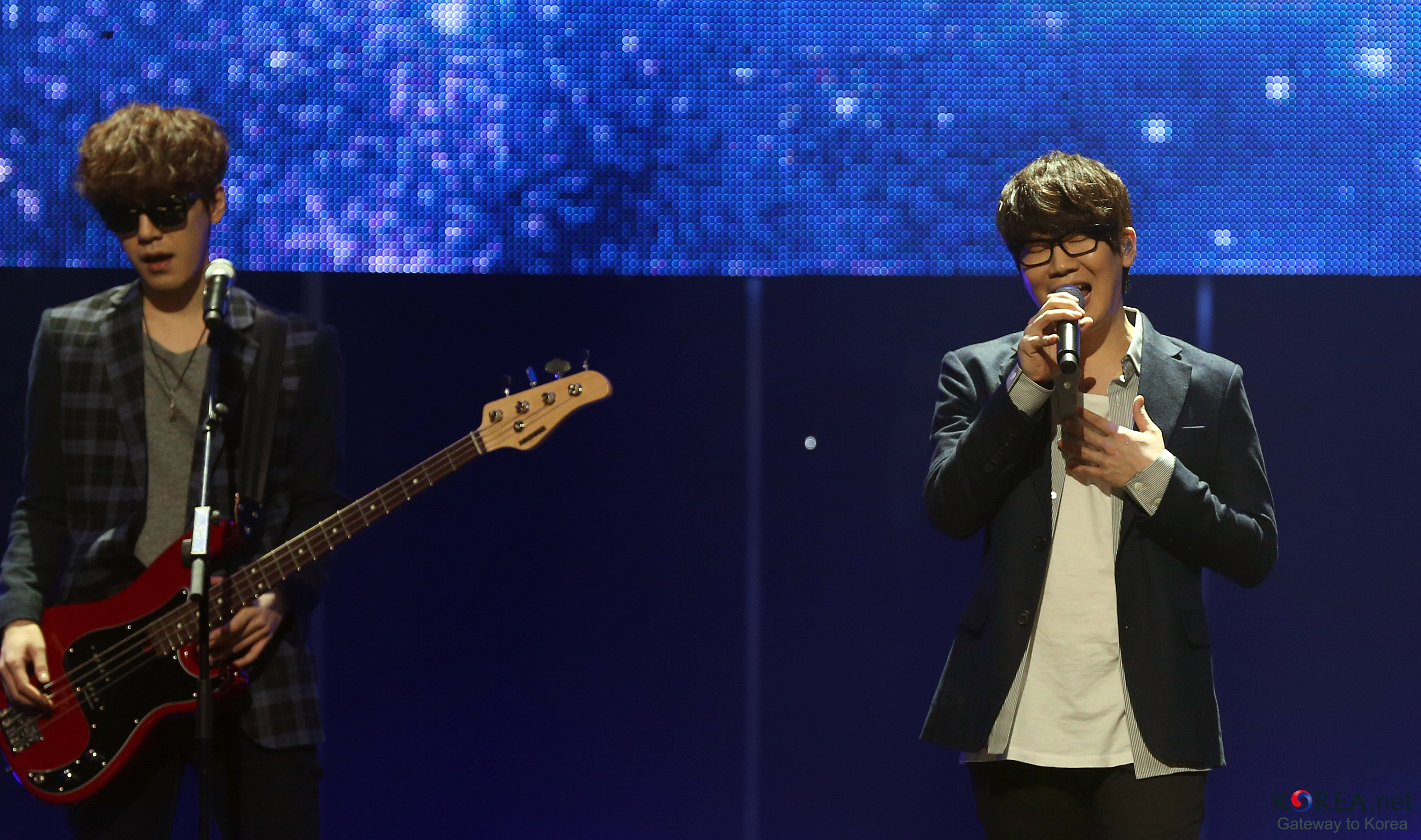 Mcountdown. Nell